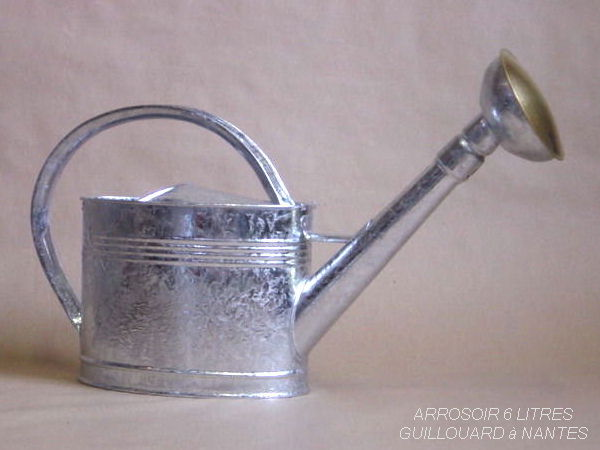 hot dip galvanized watering can, capacity of 6 liters, manufactured by Guillouard, France.